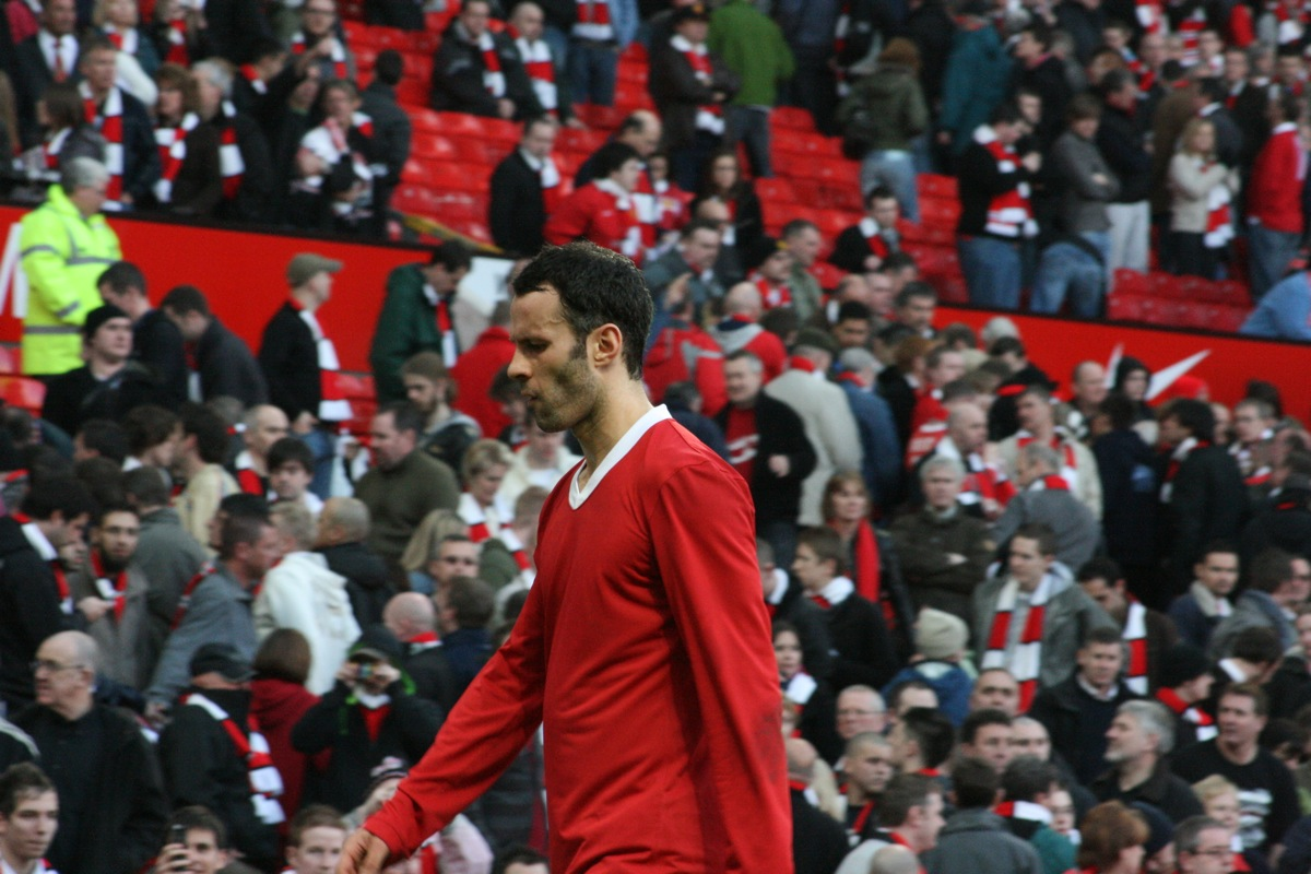 Ryan Giggs against Manchester City in 2008